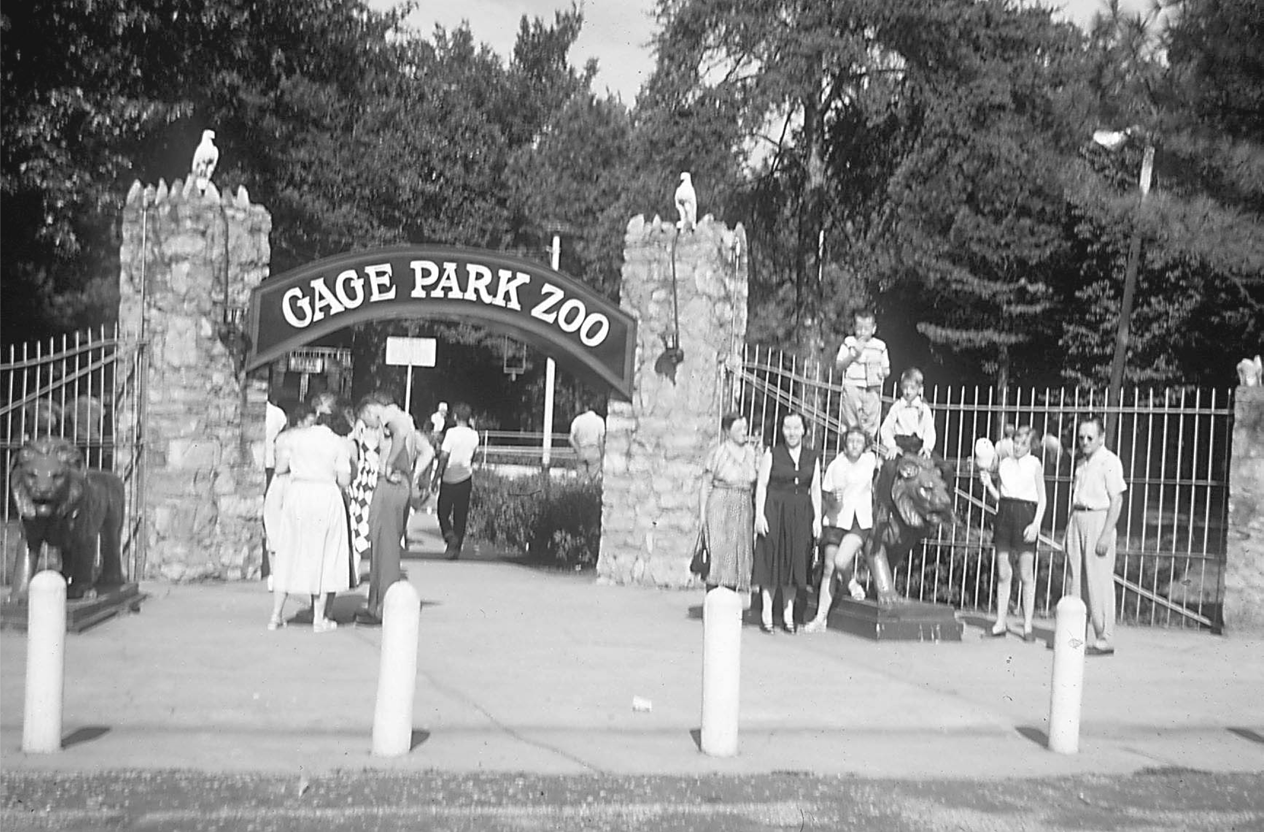 The Gage Park Zoo (now the Topeka Zoo) in Gage Park, Topeka, Kansas, c.1912.